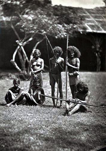 Sri Lanka aborigines early vedda